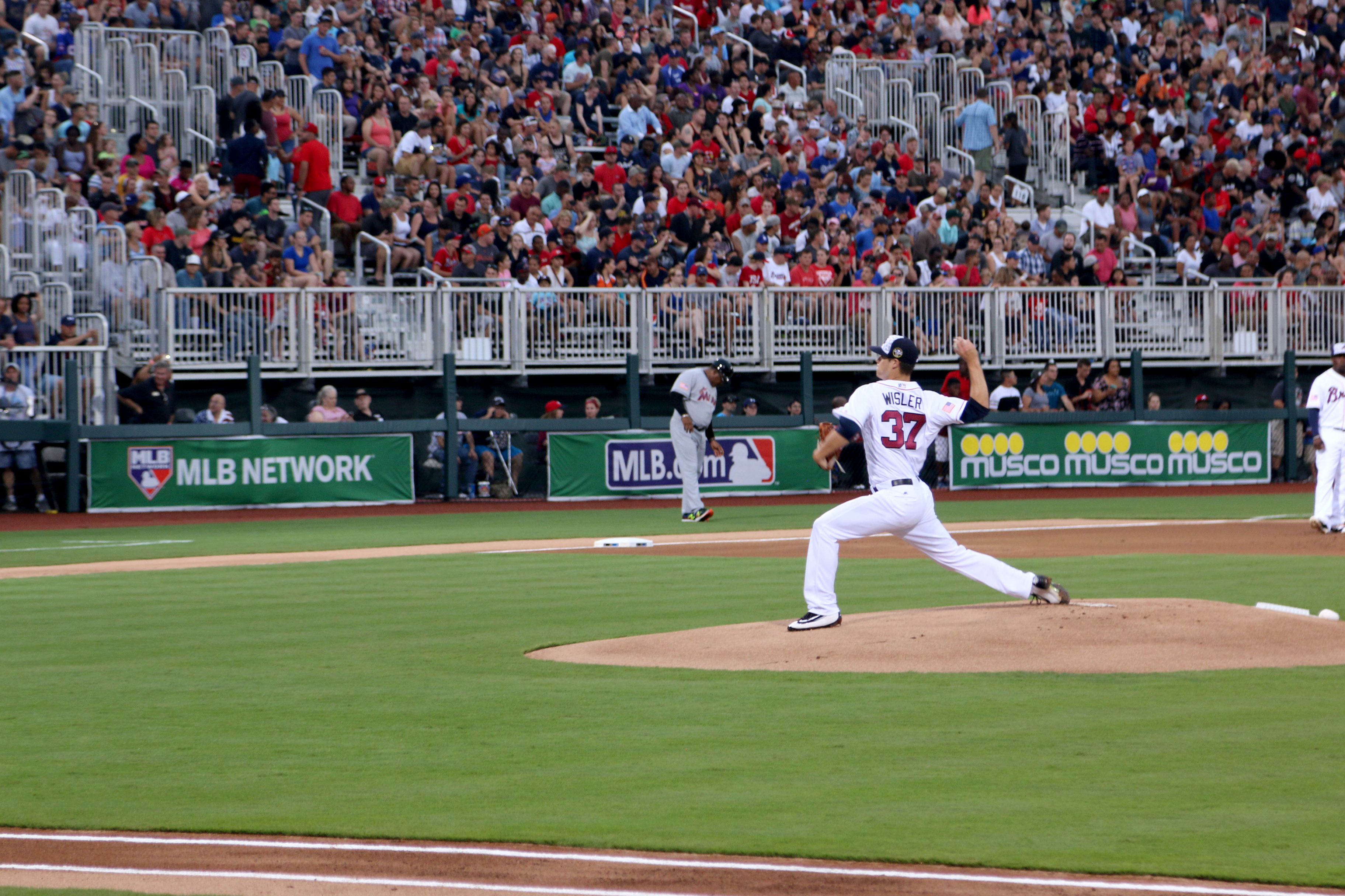 Atlanta Braves pitcher Matt Wisler throws the first pitch of the game against the Miami Marlins at Fort Bragg Field, Fort Bragg, N.C. on Sunday, July 3, 2016. Fort Bragg, MLB and the MLB Players Association teamed up to put on the historic regular season game between the Braves and Marlins at Fort Bragg. (US Army photo by Staff Sgt. Jason Duhr) Unit: 108th Air Defense Artillery Brigade